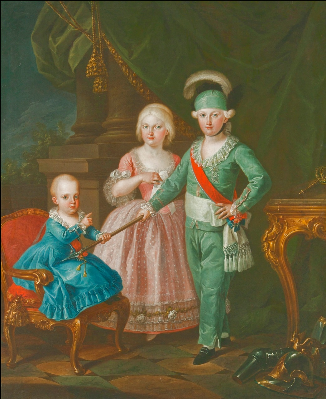 Portrait of Francisco Javier (1757-1771), Maria Luisa (1745-1792) and Charles of Bourbon (1748-1819), children of Charles III of Spain.